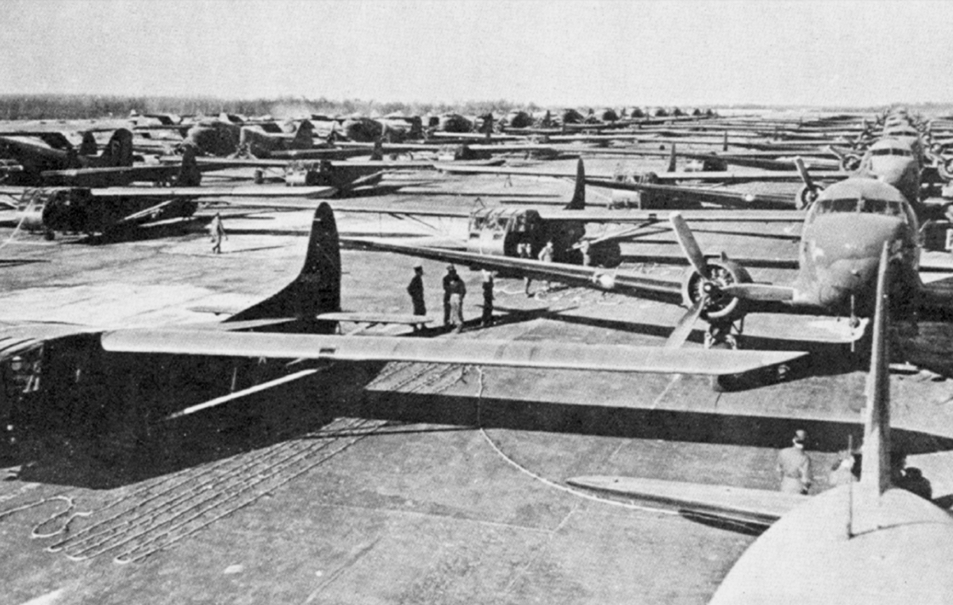 U.S. Army Air Force Douglas C-47 Skytrain transports and Waco CG-4A gliders lined up for "Operation Varsity" on 24 March 1945.